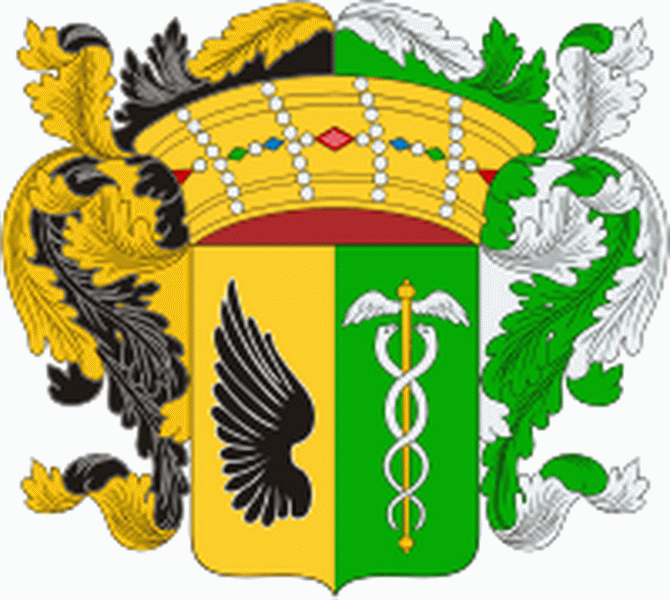 Coat of Arms of Freedricksz family